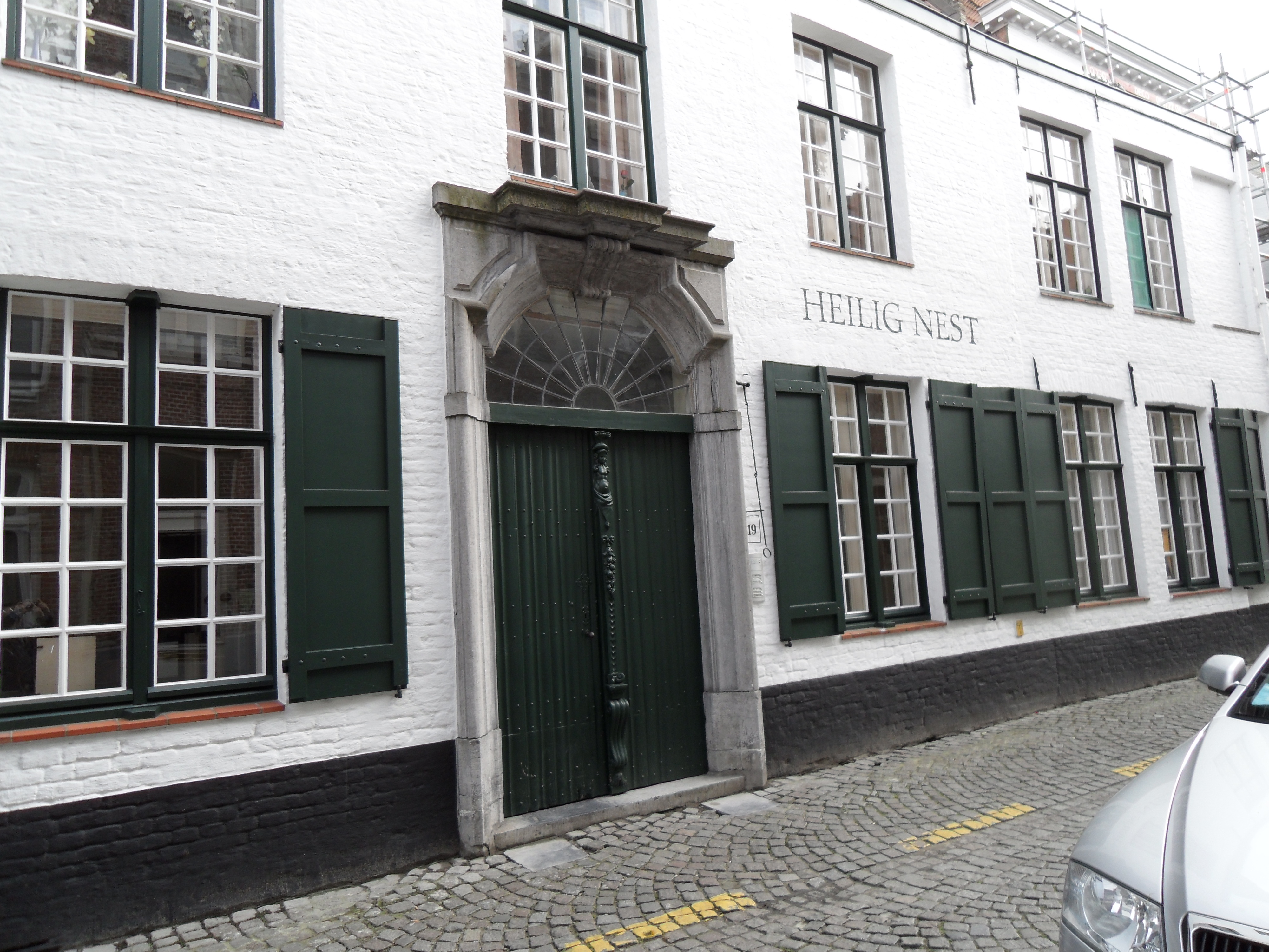 Godshuis Heilig Nest in Bruges